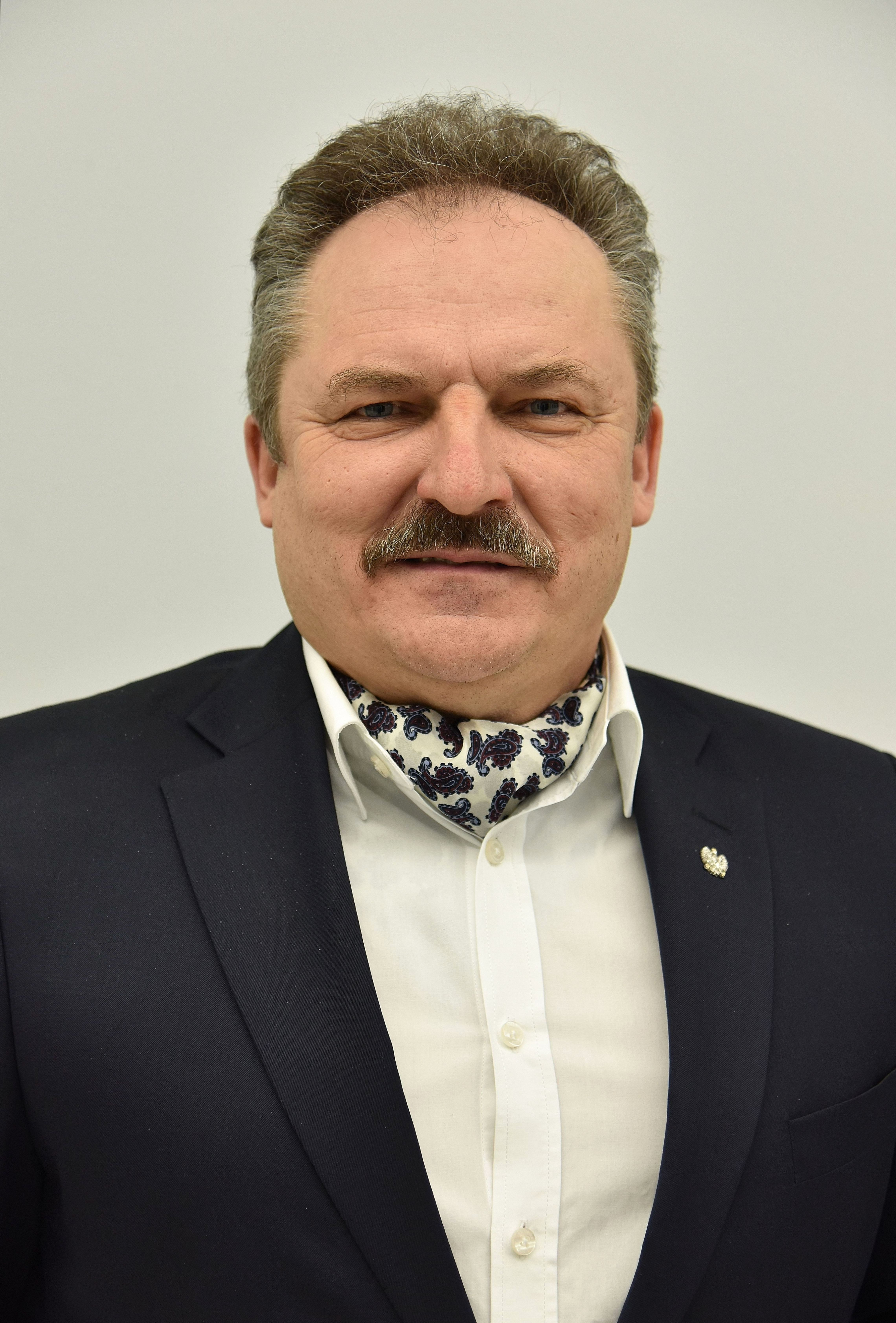 Polish MP Marek Jakubiak in the Sejm